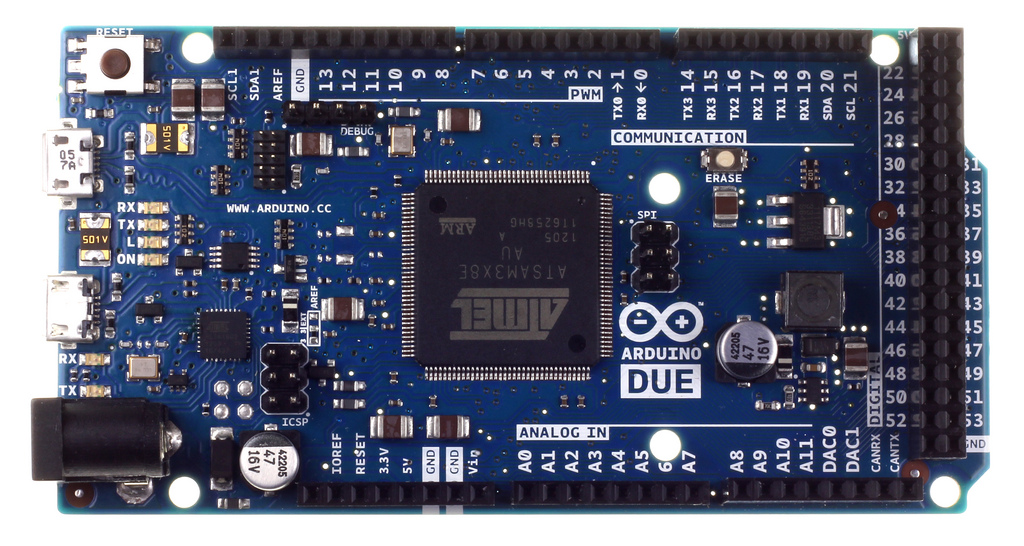 Arduino Due is the first Arduino board based on a 32-bit ARM core microcontroller, based on the Atmel SAM3X8E ARM Cortex-M3 CPU. It has 54 digital input/output pins and 12 analog inputs